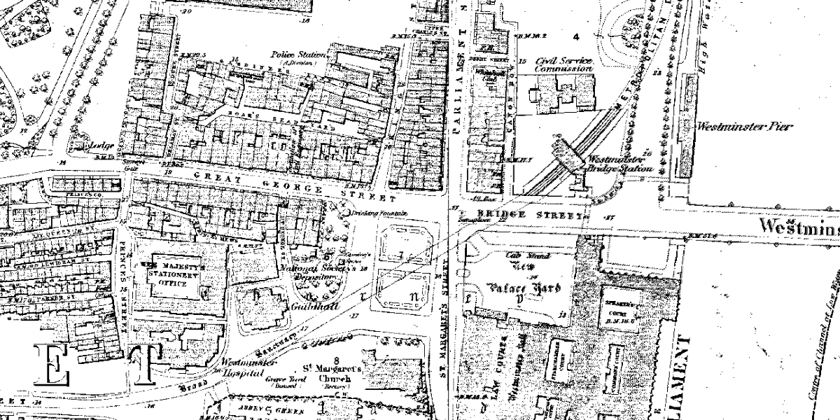 1st Epoch Ordnance Survey Map of Westminster station, London.